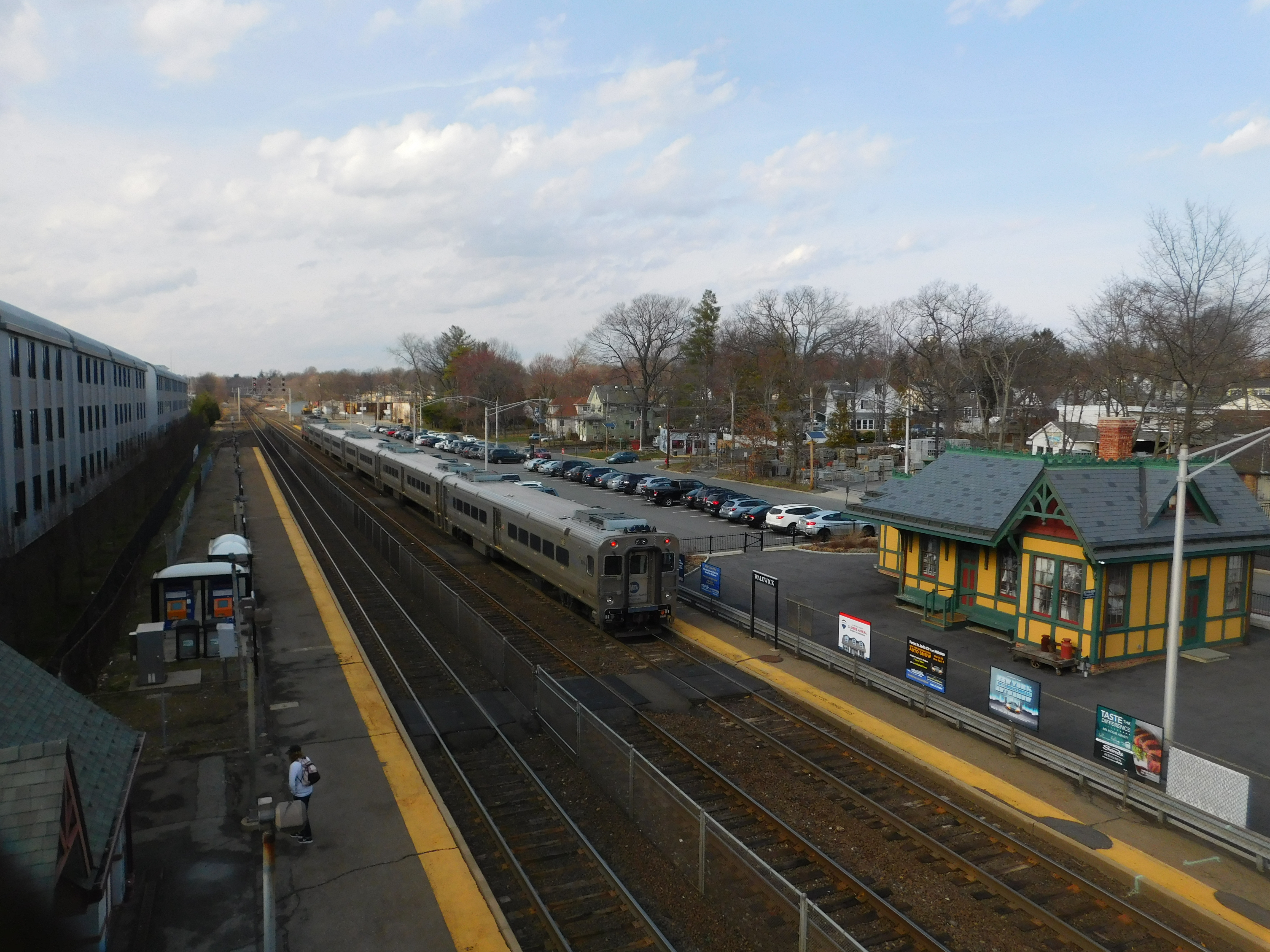 Waldwick station from above in April 2018.